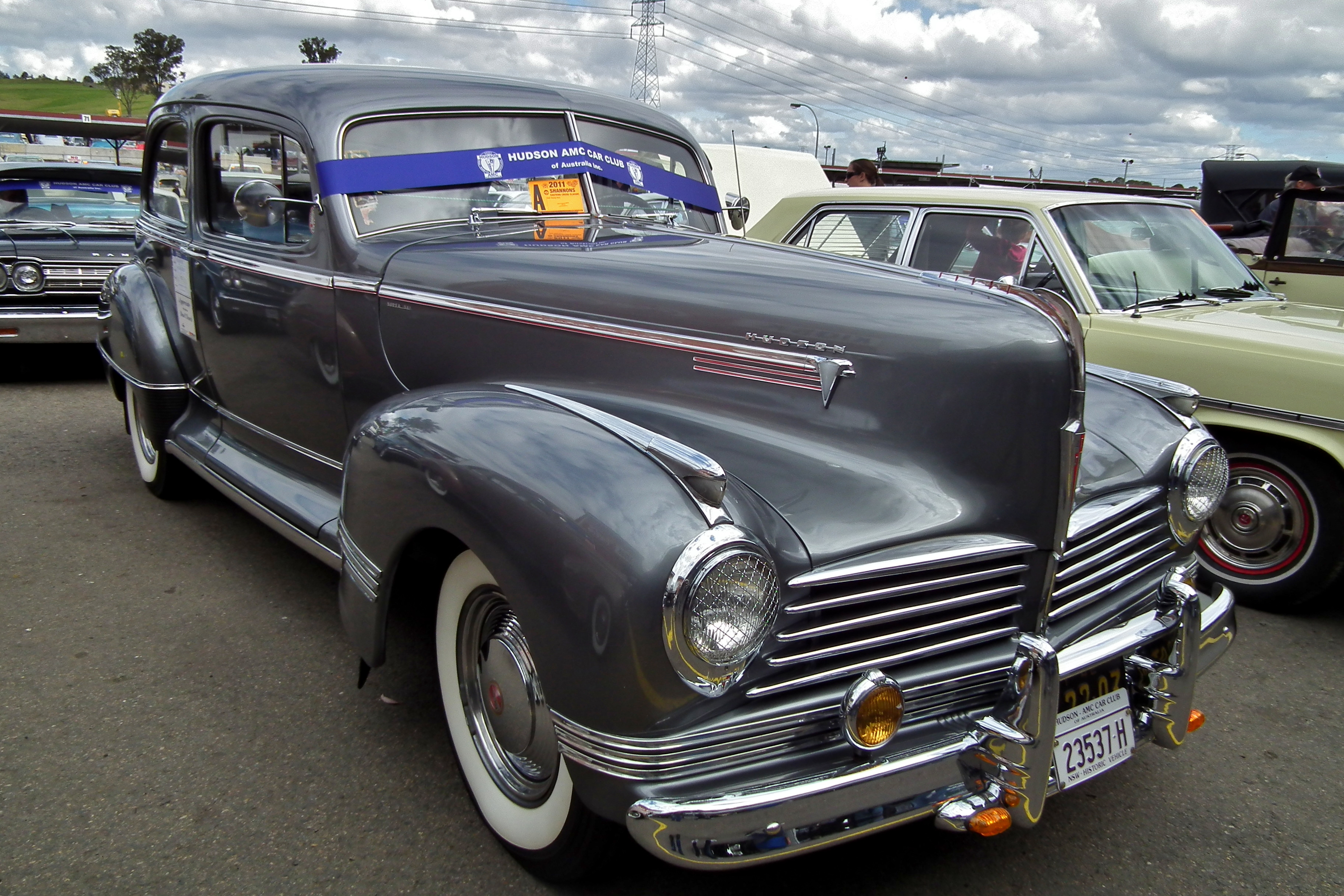 1942 Hudson Super Six brougham. Taken at Shannon's Eastern Creek Classic 2011, held at Eastern Creek Raceway Sydney.